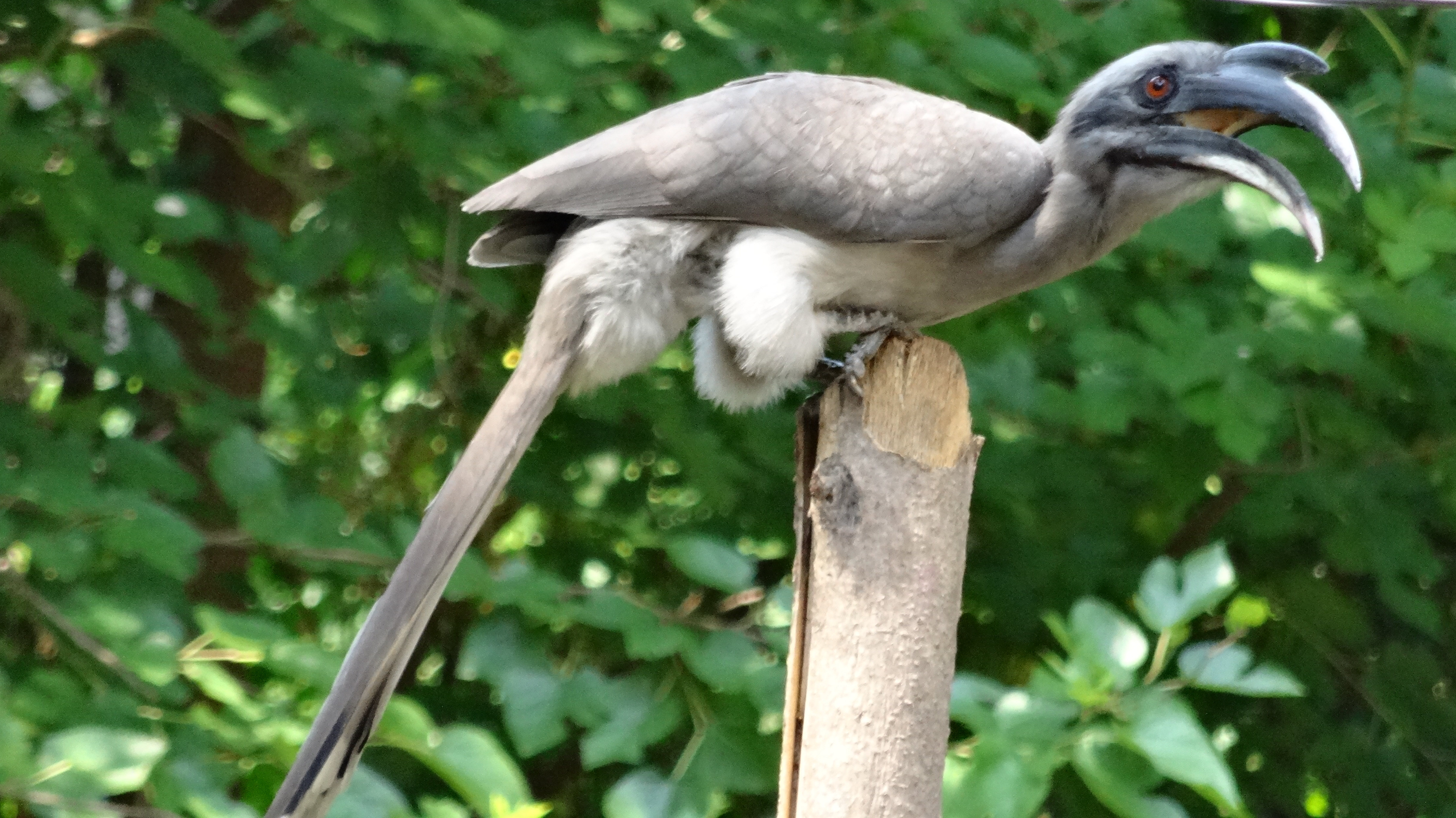 Indian Grey Hornbill Ocyceros birostris in a backyard, Chandigarh, India.